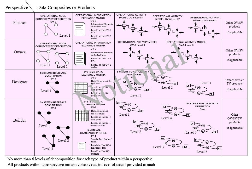 DoDAF Perspectives and Decomposition Levels.